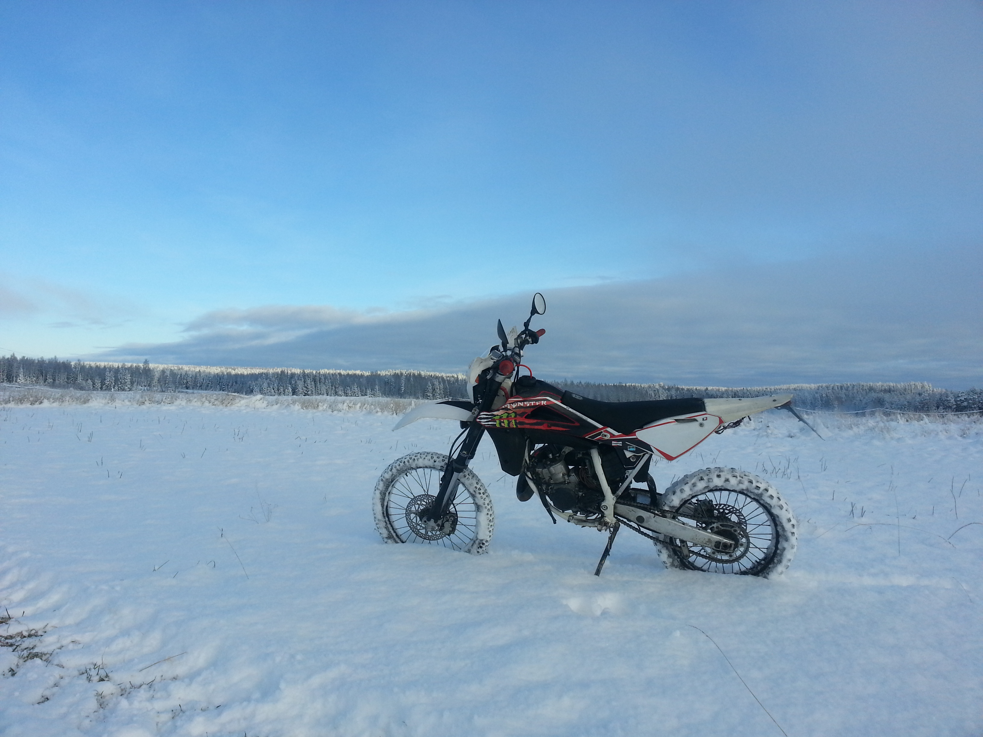 Husqvarna WR 125